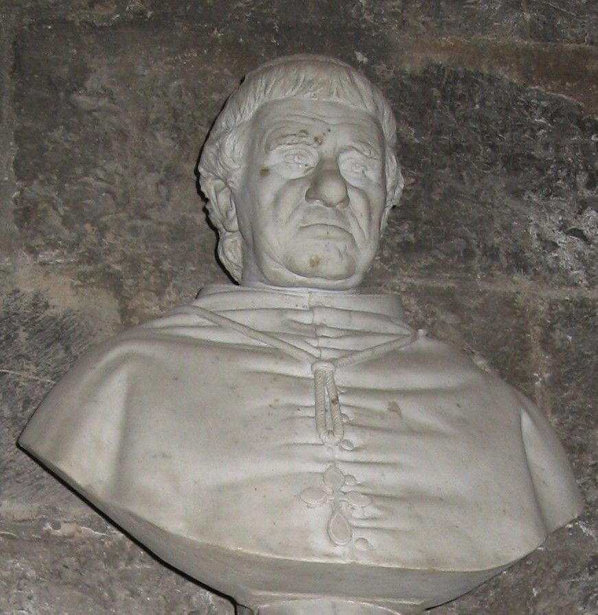 Genoa's Archibishop Salvatore Magnasco Marble bust